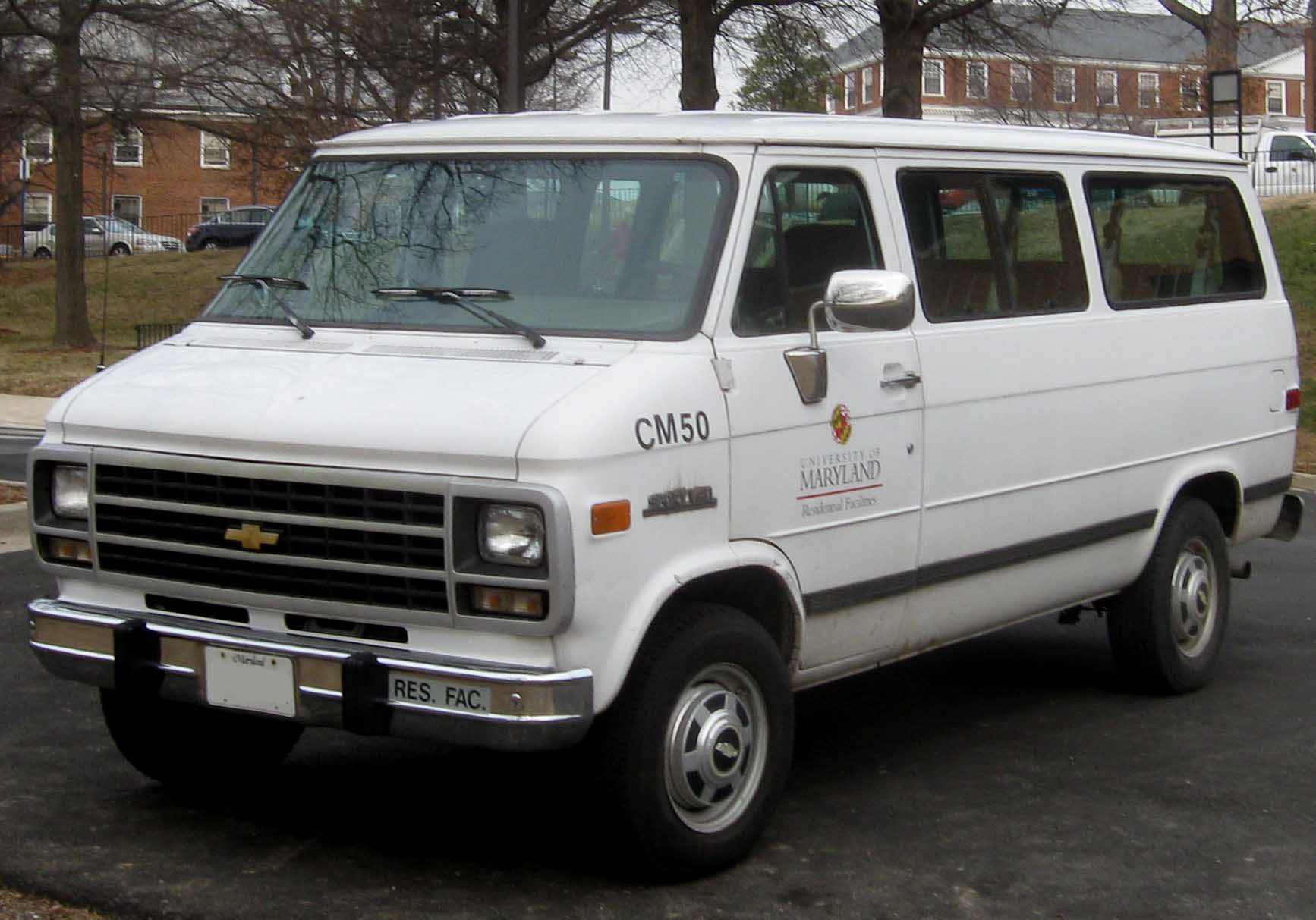 1992-1996 Chevrolet Sport Van photographed in College Park, Maryland, USA.